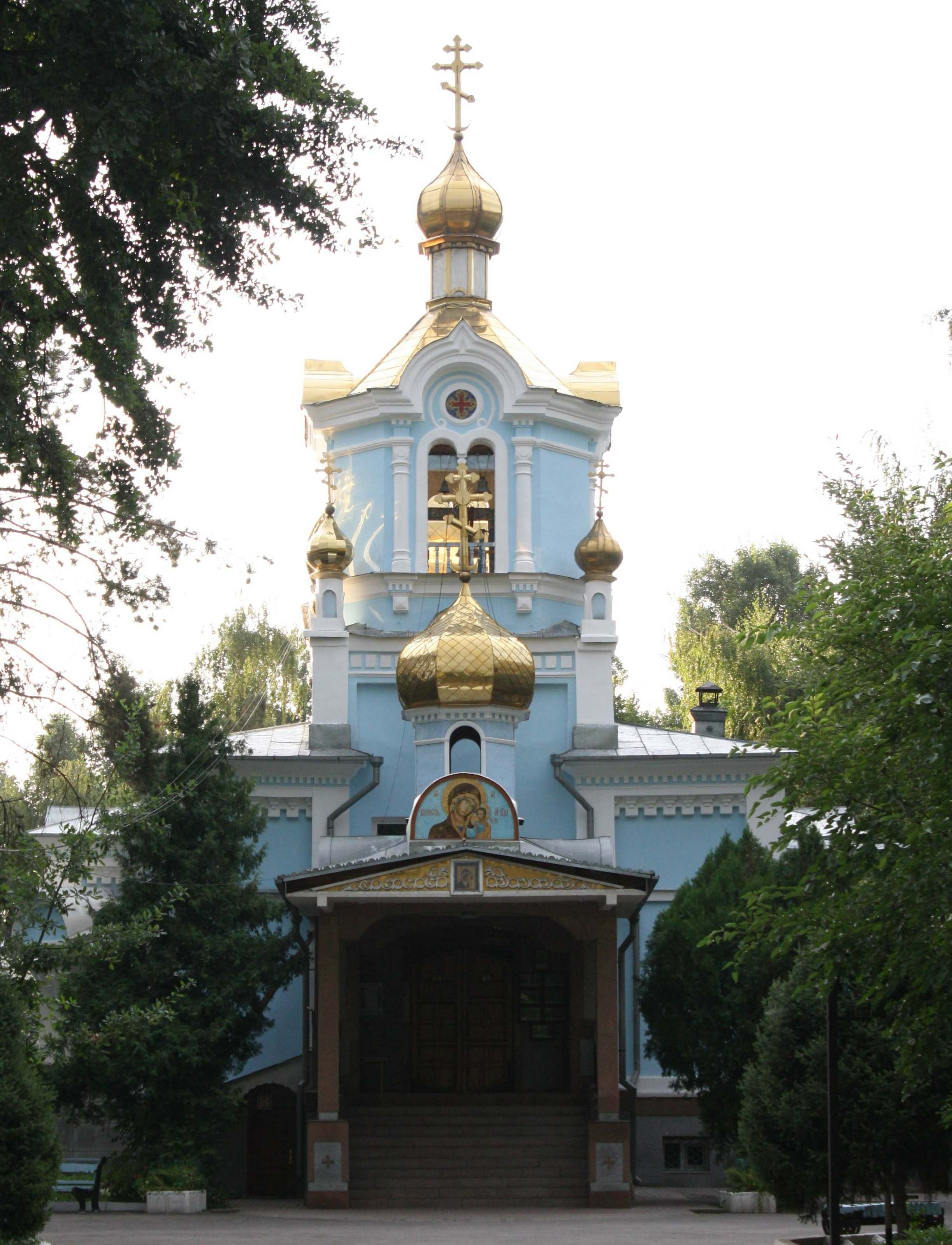 Kazakhstan, Almaty. Kazanskiy sobor of the Russian Orthodox Church. Address: Khaliullin str., 45. Almaty